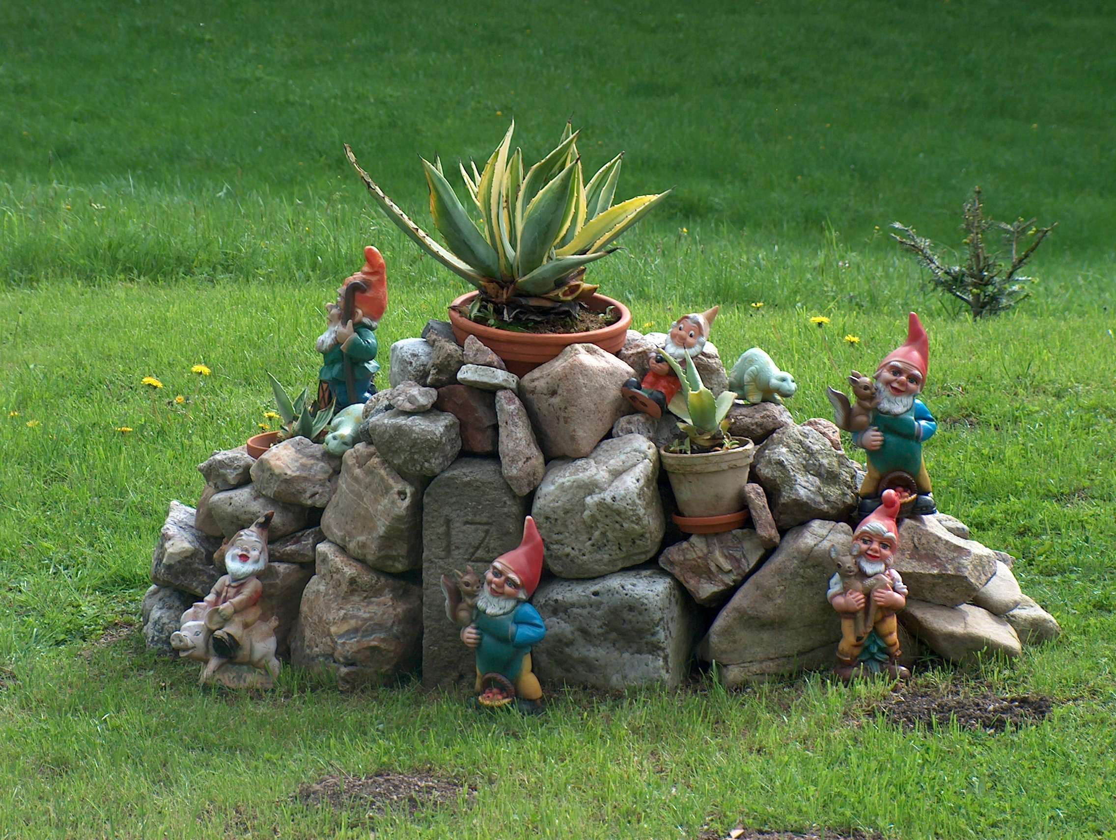 mounten with gnom